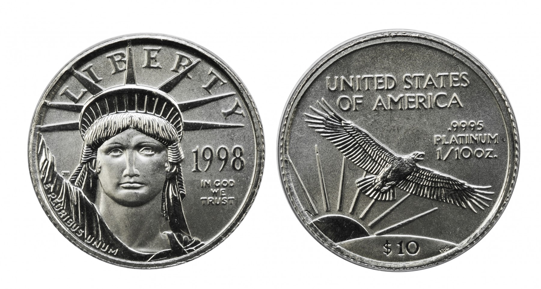 1998 1/10th ounce Americna Platinum Eagle - Coin is of my own collection, photograph was taken by me personally.